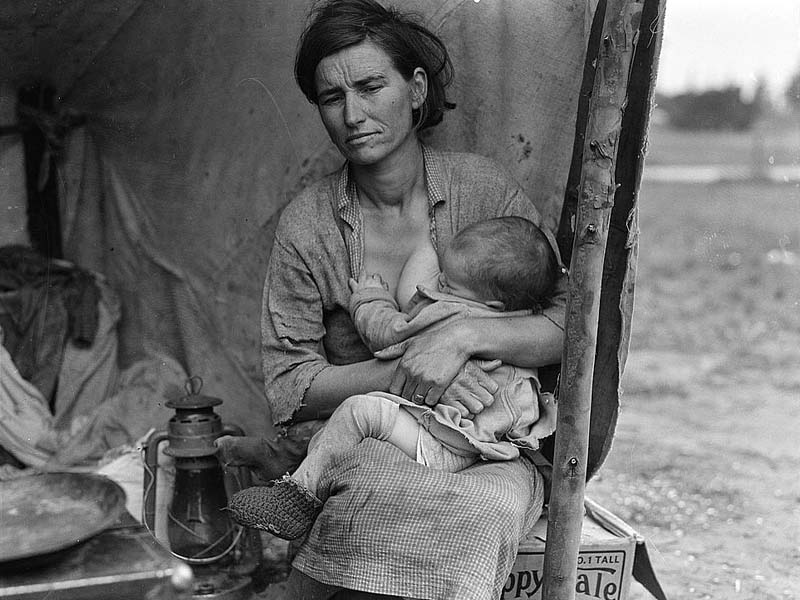 Photography of Florence Owens Thompson, known as "Migrant Mother", Pea-Pickers Camp, Nipomo, California (1936)